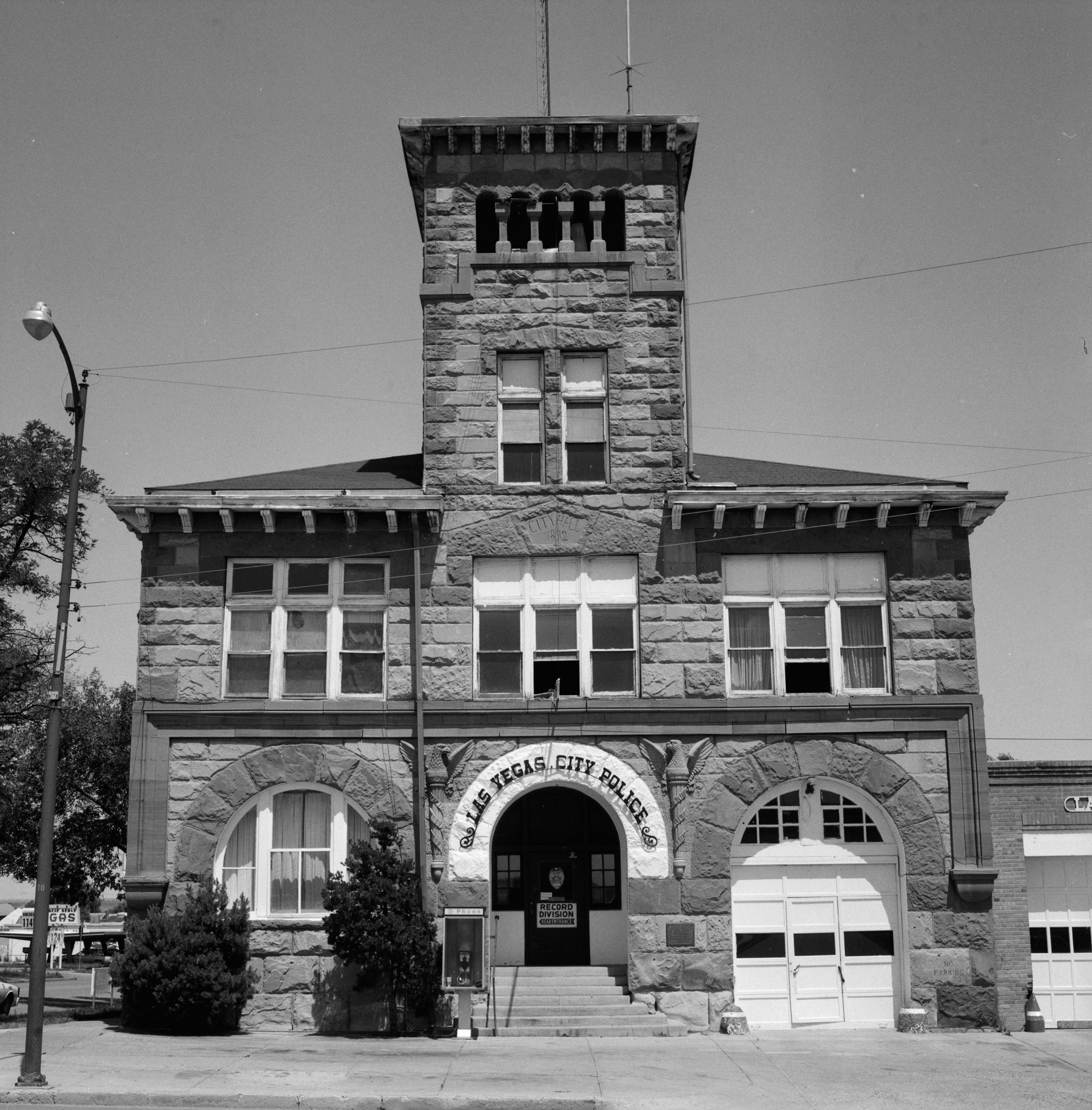 Front of City Hall in Las Vegas, New Mexico, United States, located at 6th Street and University Avenue. Completed in 1892, it is a contributing property in the Douglas-Sixth Street Historic District.